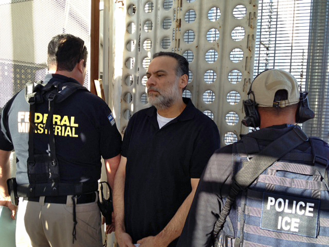 High-ranking Sinaloa Cartel leader Javier Torres Félix is deported to Mexico after completing his sentence in the U.S. He was immediately arrested in Mexico for pending charges in his homeland.